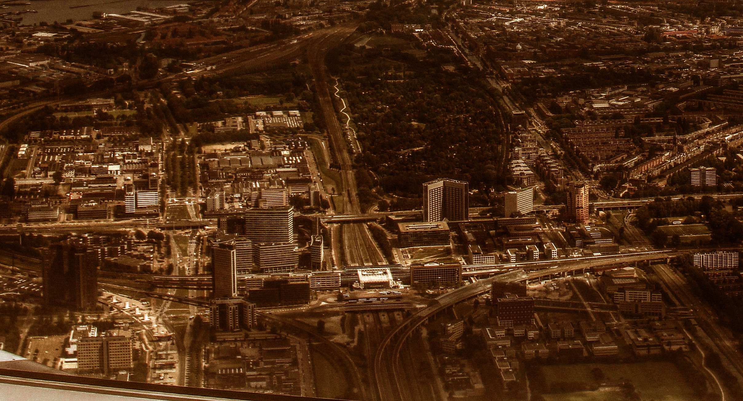 Aerial view of Sloterdijk area, March 2011